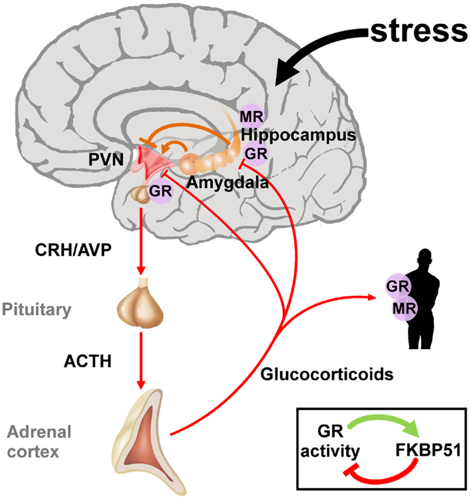 The hypothalamic-pituitary-adrenal axis integrates and mediates the stress response to early life and later on adversity. The perception of real and/or presumed physical and social threats causes activation of the hypothalamic-pituitary-adrenal axis. Anxious states arise from activation of the amygdala and magnify the stress response via neuronal projections to the paraventricular nucleus (PVN). The hippocampus plays an important role in the assessment of stressors and as a site of glucocorticoid receptor (GR) mediated negative feedback regulation. Release of the hypothalamic neuropeptides corticotrophin-releasing hormone (CRH) and arginine vasopressin (AVP) promotes the synthesis and secretion of adrenocorticotrophin (ACTH), a posttranslational cleavage product of anterior pituitary pro-opiomelanocortin mRNA (POMC). ACTH in turn stimulates the release of glucocorticoids from the adrenal glands. These hormones circulate throughout the whole body and the brain and bind to intracellular nuclear steroid receptors. Hippocampal mineralocorticoid (MR) receptors act to the onset of the stress response, while GR at the hippocampus, PVN, and anterior pituitary terminates the stress response. The GR further transactivates FKBP51 encoding a chaperon protein which curtails GR activity through a fast intracellular negative feedback loop.